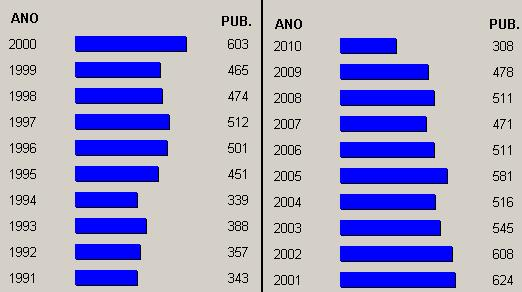 clel